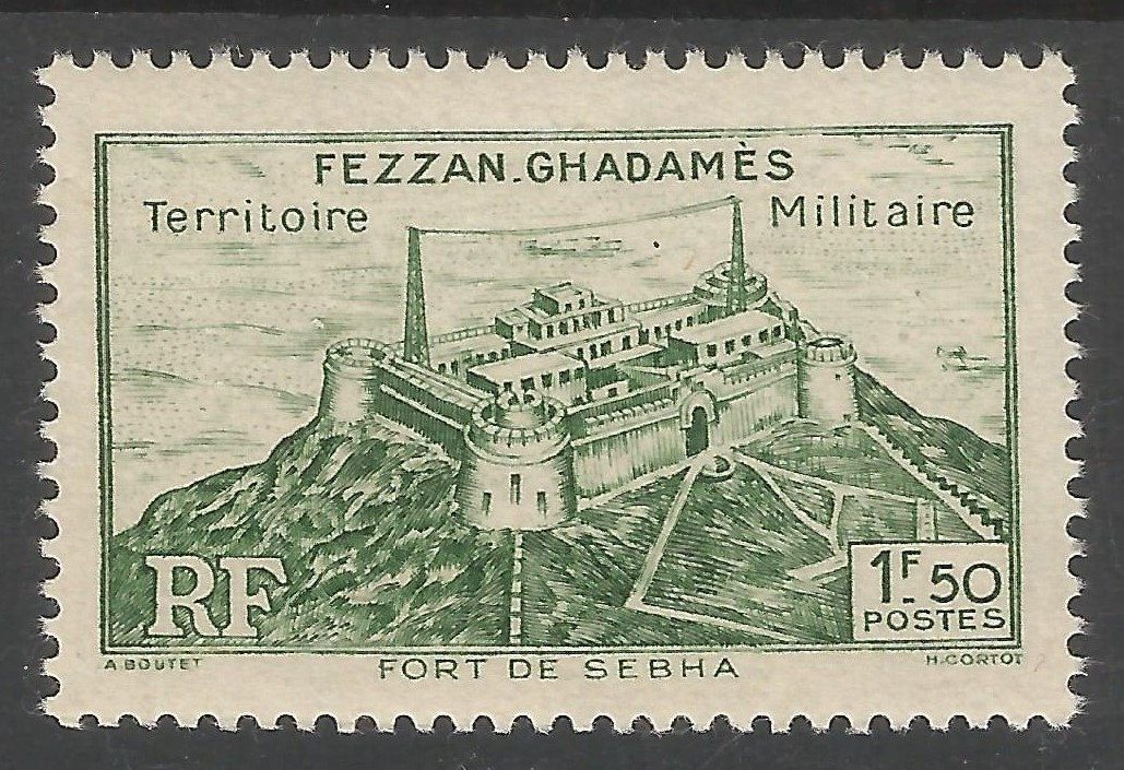 Fort of Sabha on stamp of French military occupation after WW II